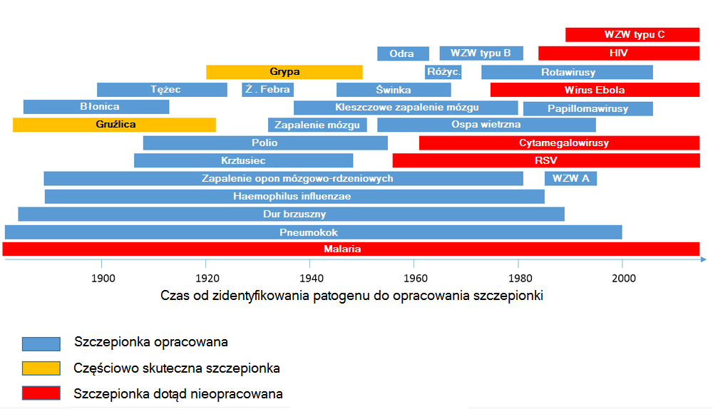 Vaccine timeline in Polish